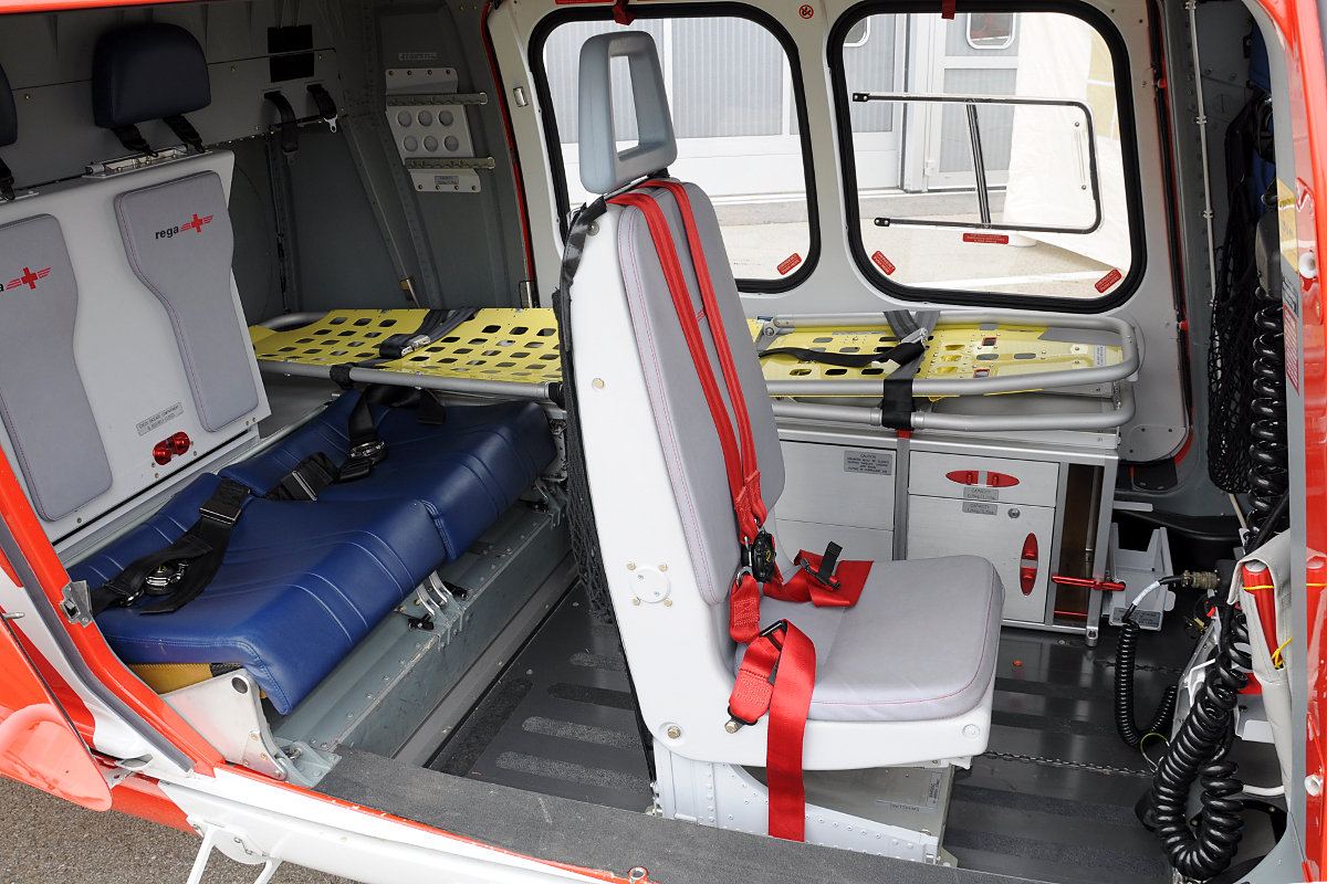 The cabin of a REGA Agusta A109SP helicopter, showing the stretcher and the doctor's seat (front)